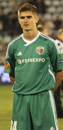 Yevhen Tkachuk